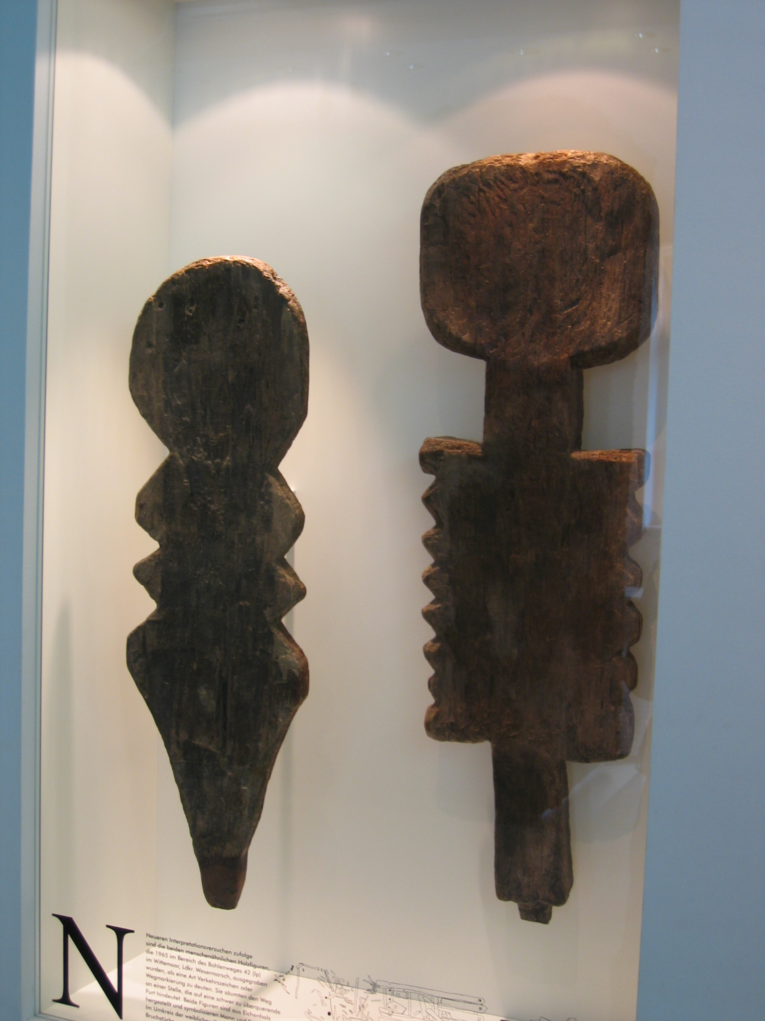 Two wooden idols from the bog Wittemoor in Hundsmühlen (Oldenburg), Lower Saxony, Germany. Probably they marked a safe way through the bog. Pre roman iron age